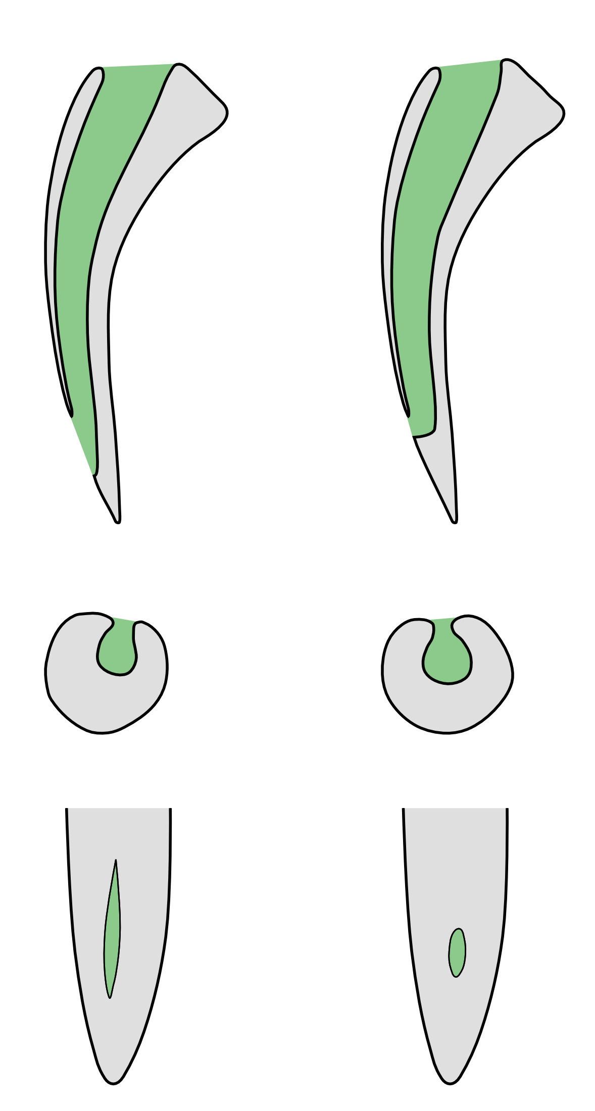 Schematic comparison between the venom fangs of spitting cobras (to the right) and non-spitting cobras (to the left). First row: Section of the whole fang in the saggital plane. Second row: Horizontal section through the fang at the height of the discharge orifice. Third row: Frontal view of the discharge orifices. Drawn and schematized after: Berthé RA (2011): Spitting behaviour and fang morphology of spitting cobras. PhD dissertation Rheinische Friedrich-Wilhelms Universität Bonn. Bogert CM (1943): Dentitional phenomena in cobras and other elapids with notes on adaptive modifications of fangs. Bulletin American Museum of Natural History 81:285–363 Wüster W, Thorpe RS (1992): Dentitional phenomena in cobras revisited: Spitting and fang structure in the asiatic species of Naja (Serpentes: Elapidae). Herpetologica 48:424–434 Young BA, Dunlap K, Koenig K, Singer M (2004): The buccal buckle: the functional morphology of venom spitting in cobras. The Journal of Experimental Biology 207: 3483-3494.